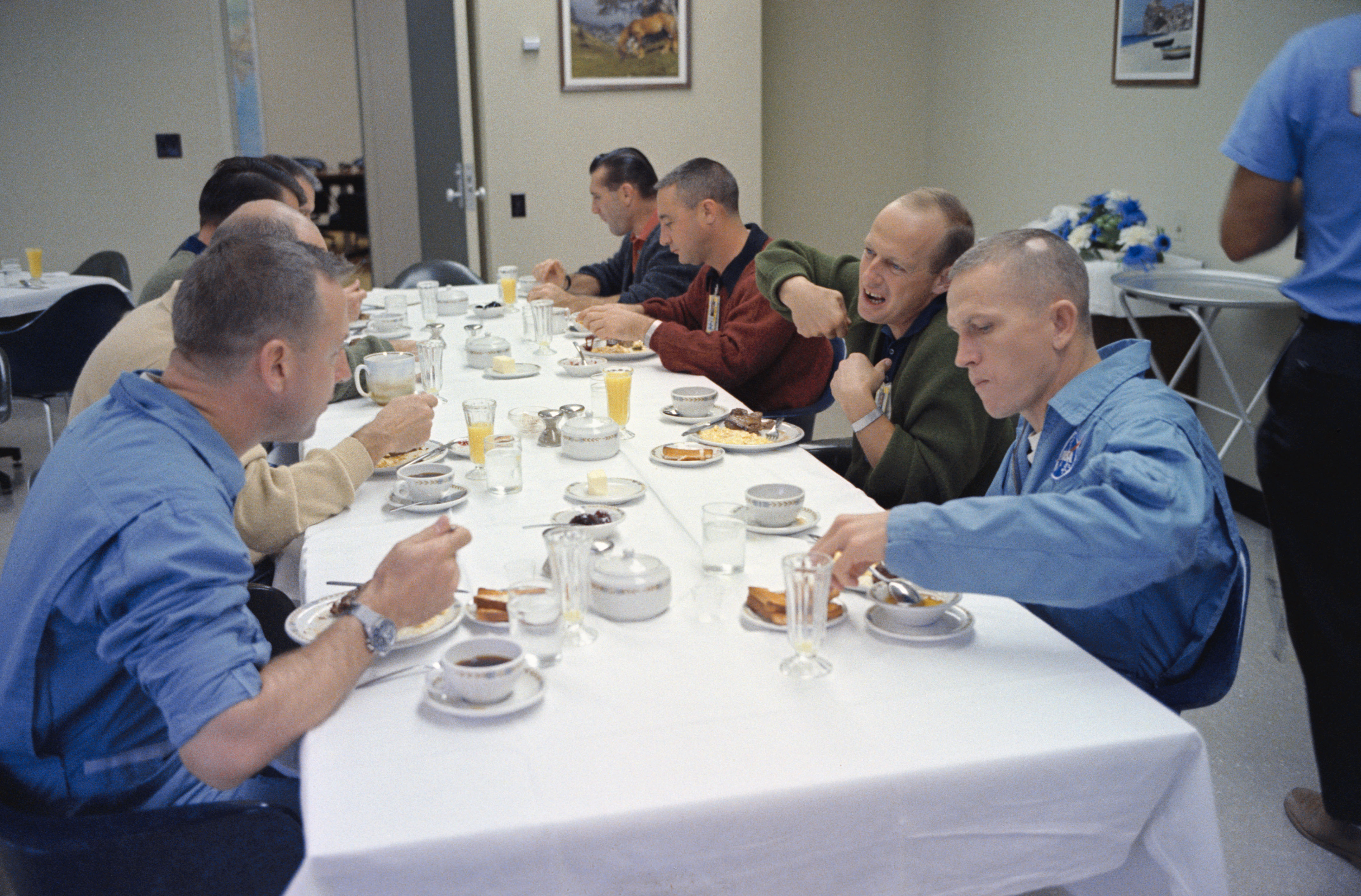 Fellow astronauts join the Gemini 7 prime crew for breakfeast in the Manned Spacecraft Operations Building, Merritt Island, on the day of the Gemini 7 launch. Clockwise around table, starting lower left, are Astronauts James A. Lovell Jr., Gemini 7 prime crew pilot; Thomas P. Stafford; Walter M. Schirra Jr.; Donald K. Slayton, MSC Assistant Director for Flight Crew Operations; Richard F. Gordon Jr., Gemini 8 backup crew pilot; Virgil I. Grissom; Charles Conrad Jr.; and Frank Borman, Gemini 7 prime crew command pilot.